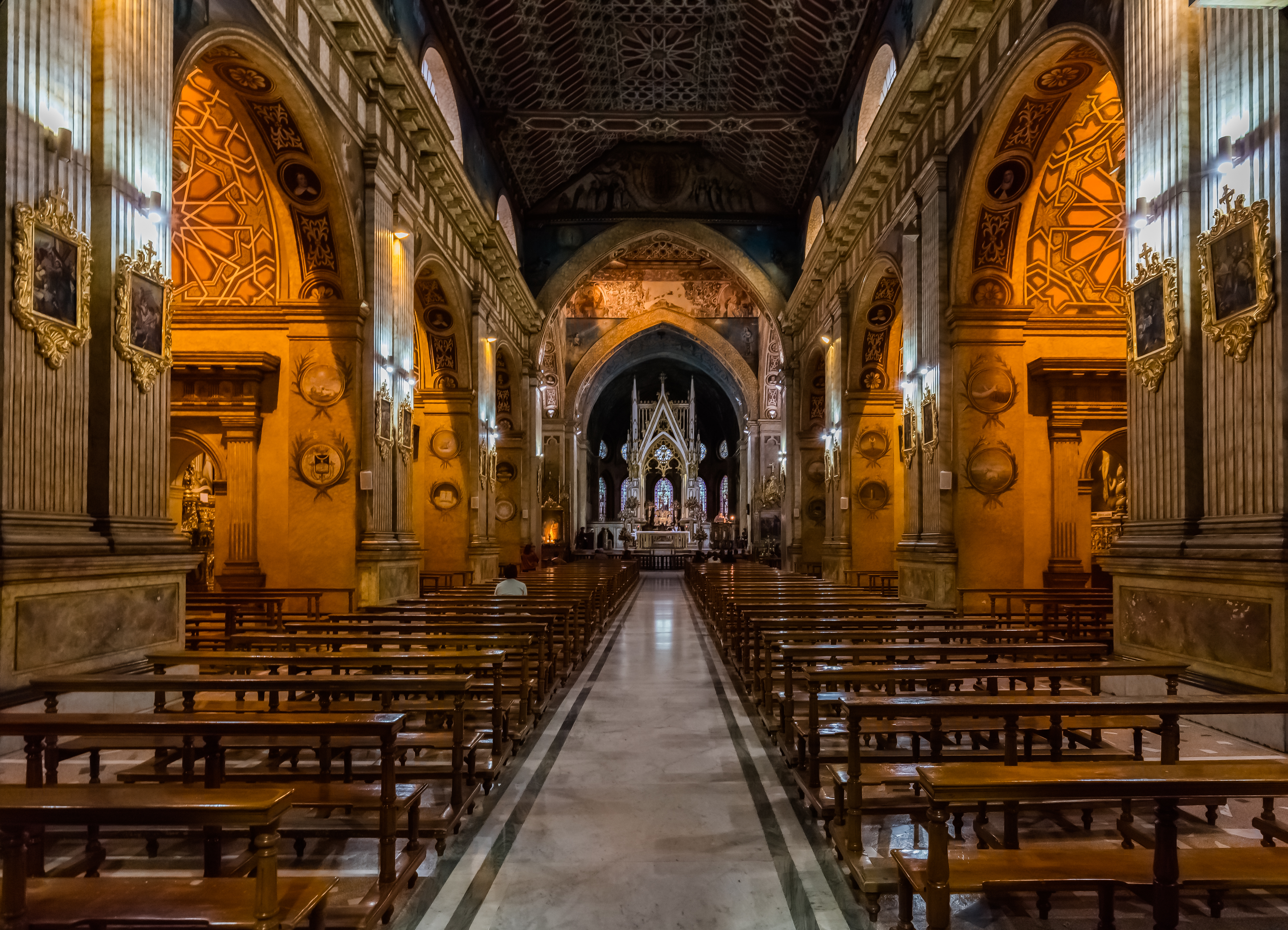 Church of Santo Domingo, Quito, Ecuador